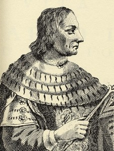 King Charles II of Naples